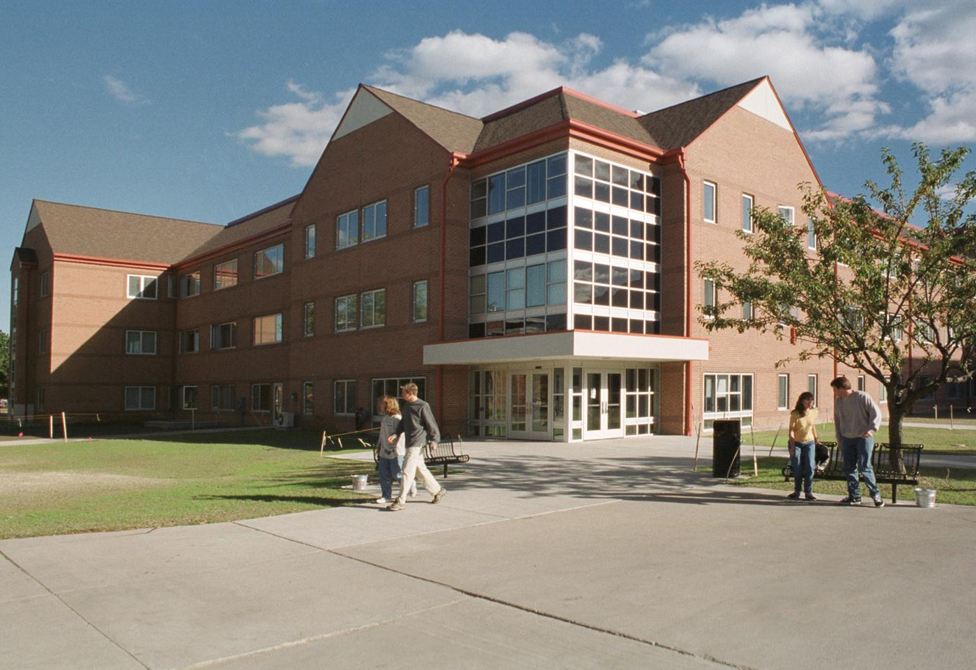 Saginaw Valley State University's Living Center shortly after it was finished.